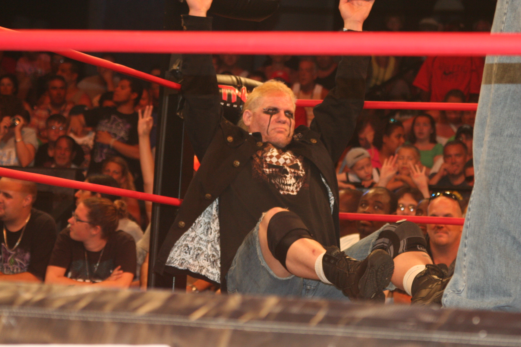 Professional wrestler Raven in the corner of the ring at a taping of TNA Impact! on July 26, 2010.